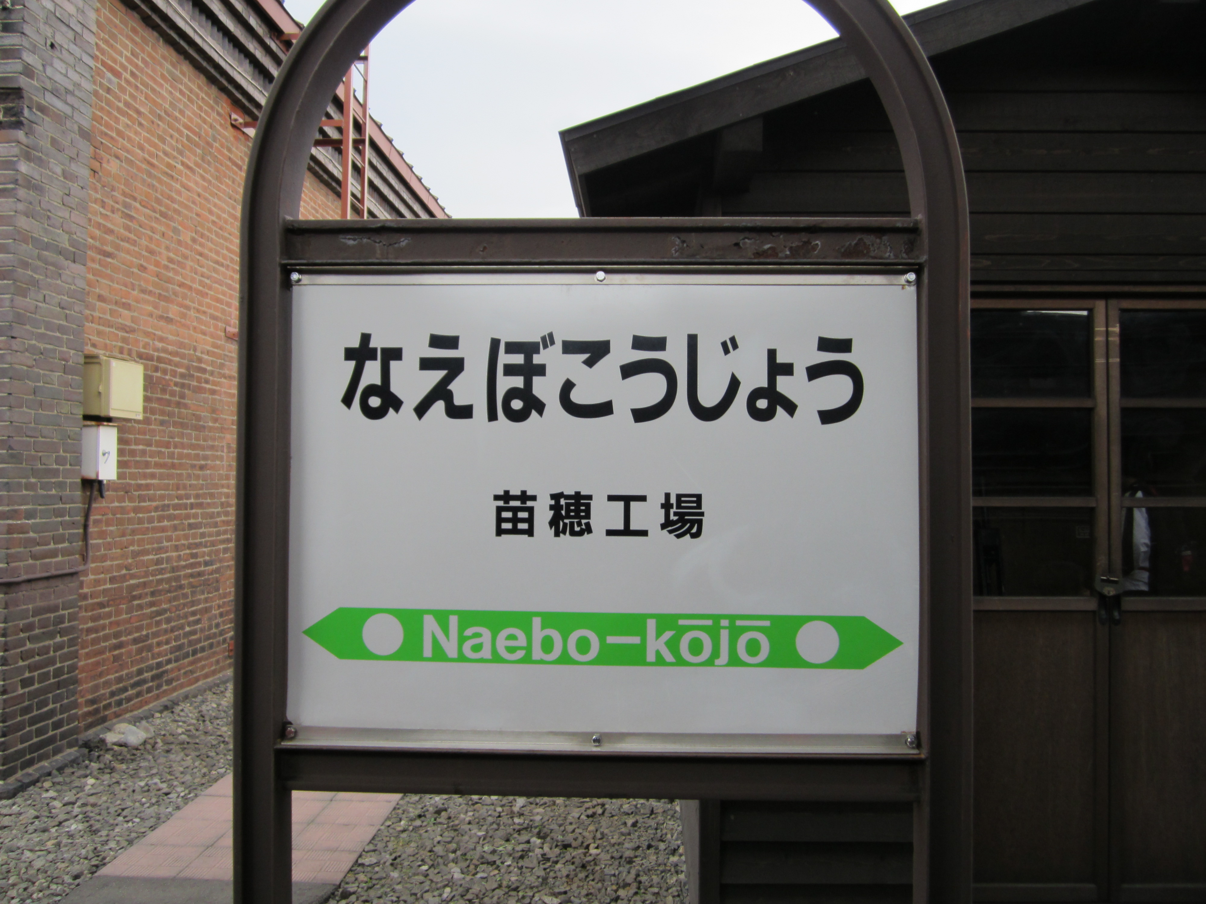 Sign at JR Hokkaido Naebo Workshop (Naebo Kojo) that mimics a station sign